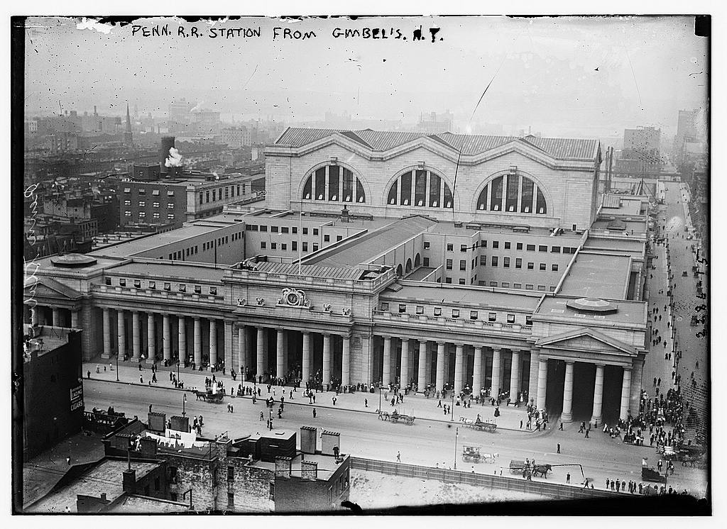 Penn. RR Station from Gimbel's N.Y. (LOC) Bain News Service,, publisher. Pennsylvania Station from Gimbel's in 1911 [between ca. 1910 and ca. 1915] 1 negative : glass ; 5 x 7 in. or smaller. Notes: Title from unverified data provided by the Bain News Service on the negatives or caption cards. Forms part of: George Grantham Bain Collection (Library of Congress). Subjects:N.Y. Format: Glass negatives. Repository: Library of Congress, Prints and Photographs Division, Washington, D.C. 20540 USA, General information about the Bain Collection is available at Persistent URL: Call Number: LC-B2- 2286-15